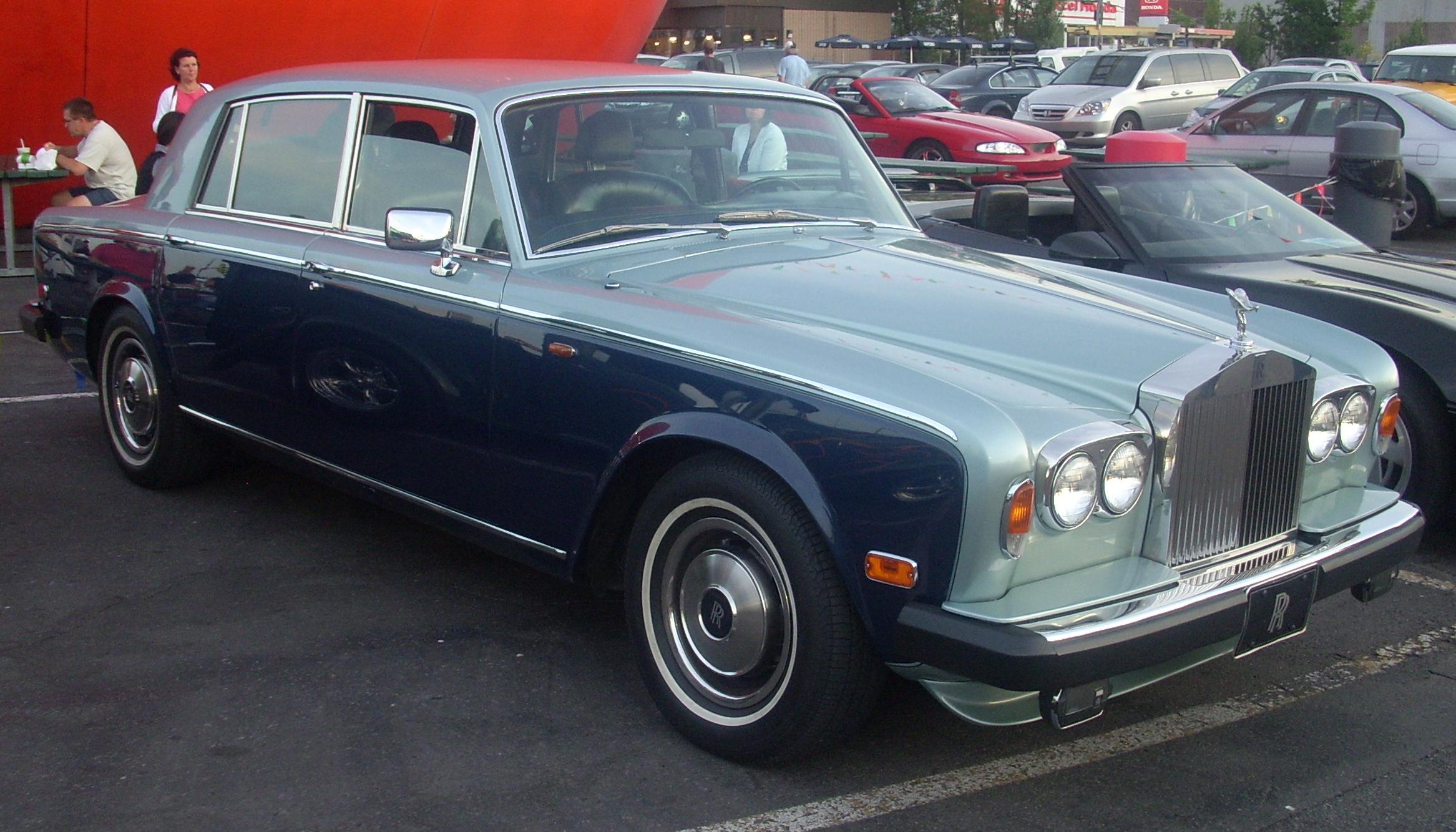 Rolls-Royce Silver Wraith II photographed in Montreal, Quebec, Canada at Gibeau Orange Julep.